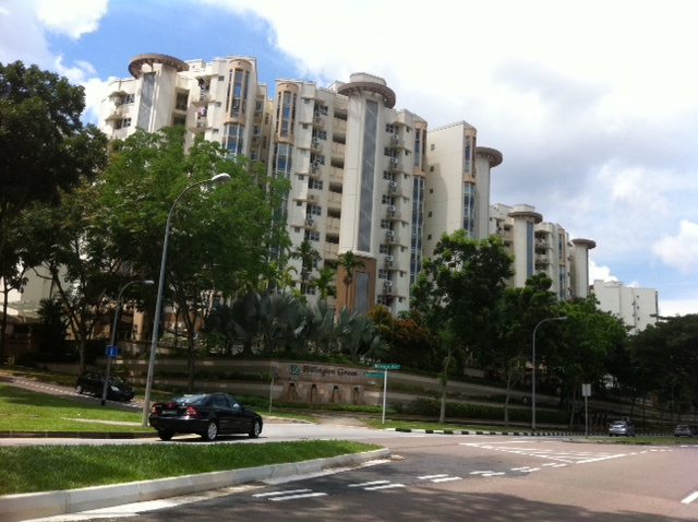 Hillington Green, a condominium at 45 Hillview Avenue, Singapore.